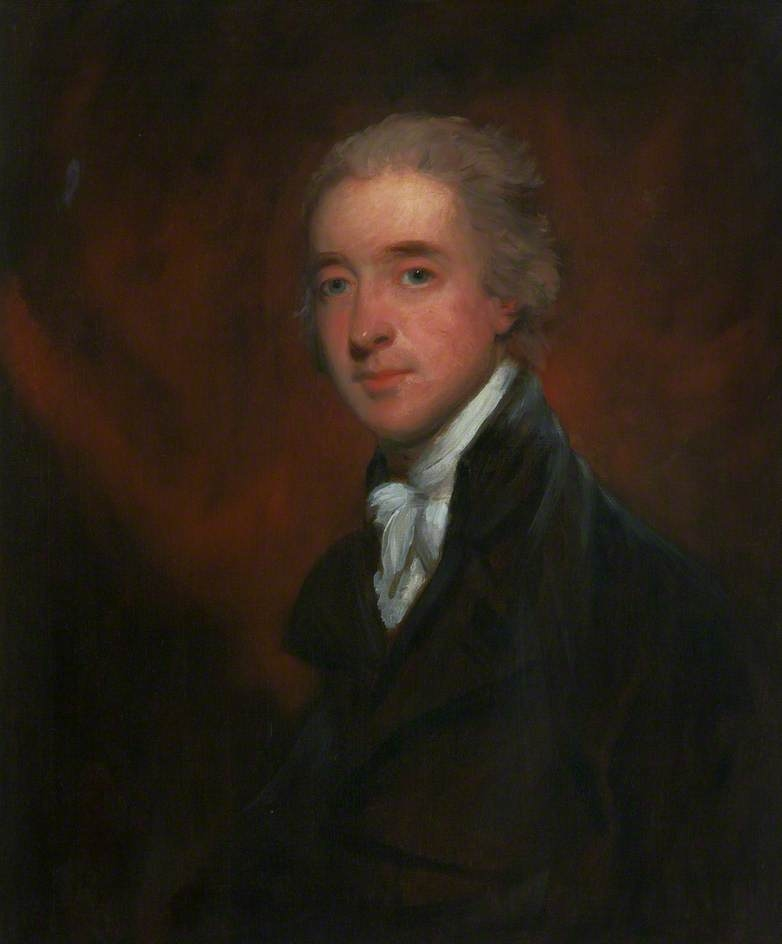 Portrait of William Dundas; Scottish Tory politician and Secretary at War (1804-06).